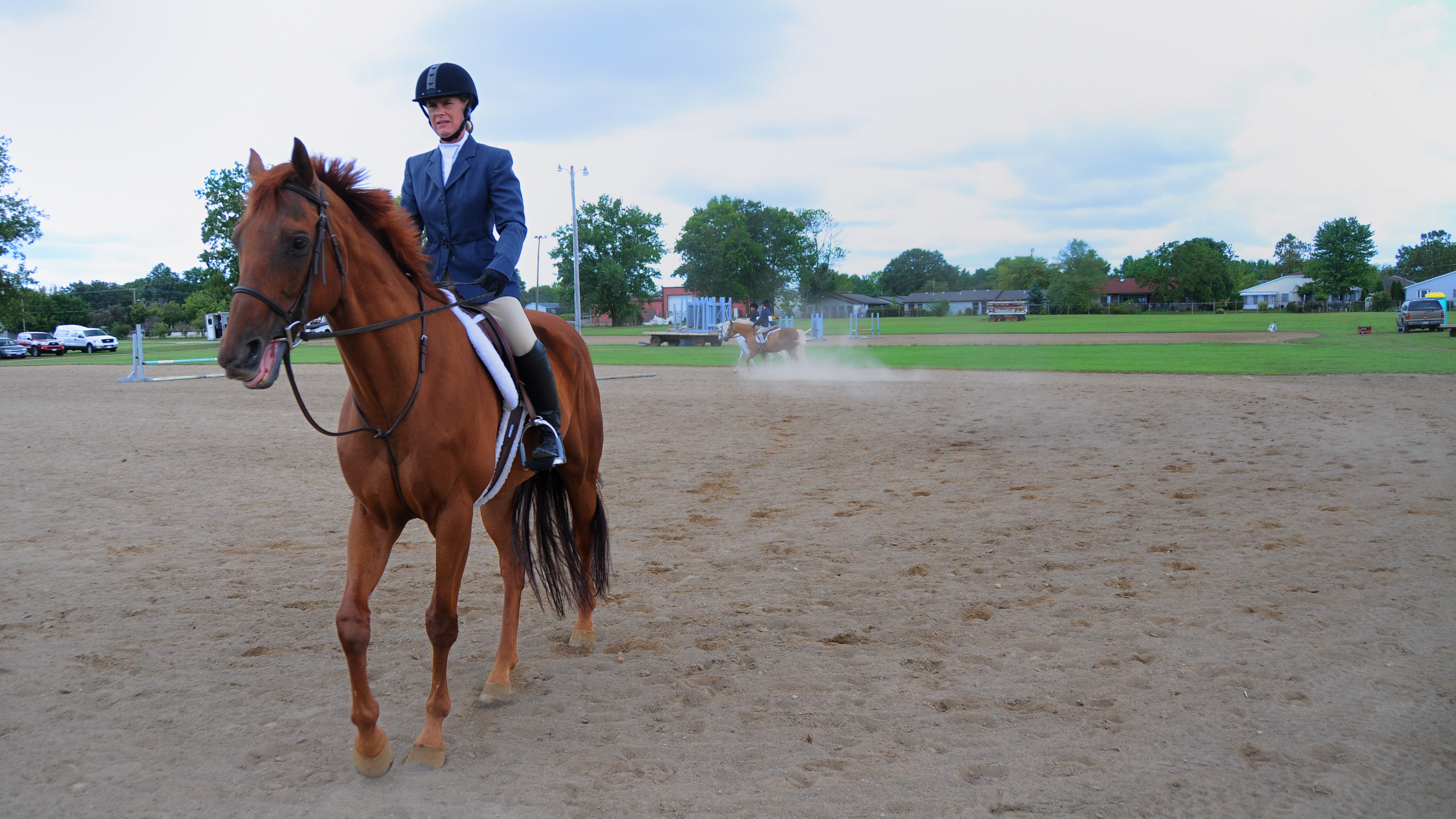 Delaware Horse Show.